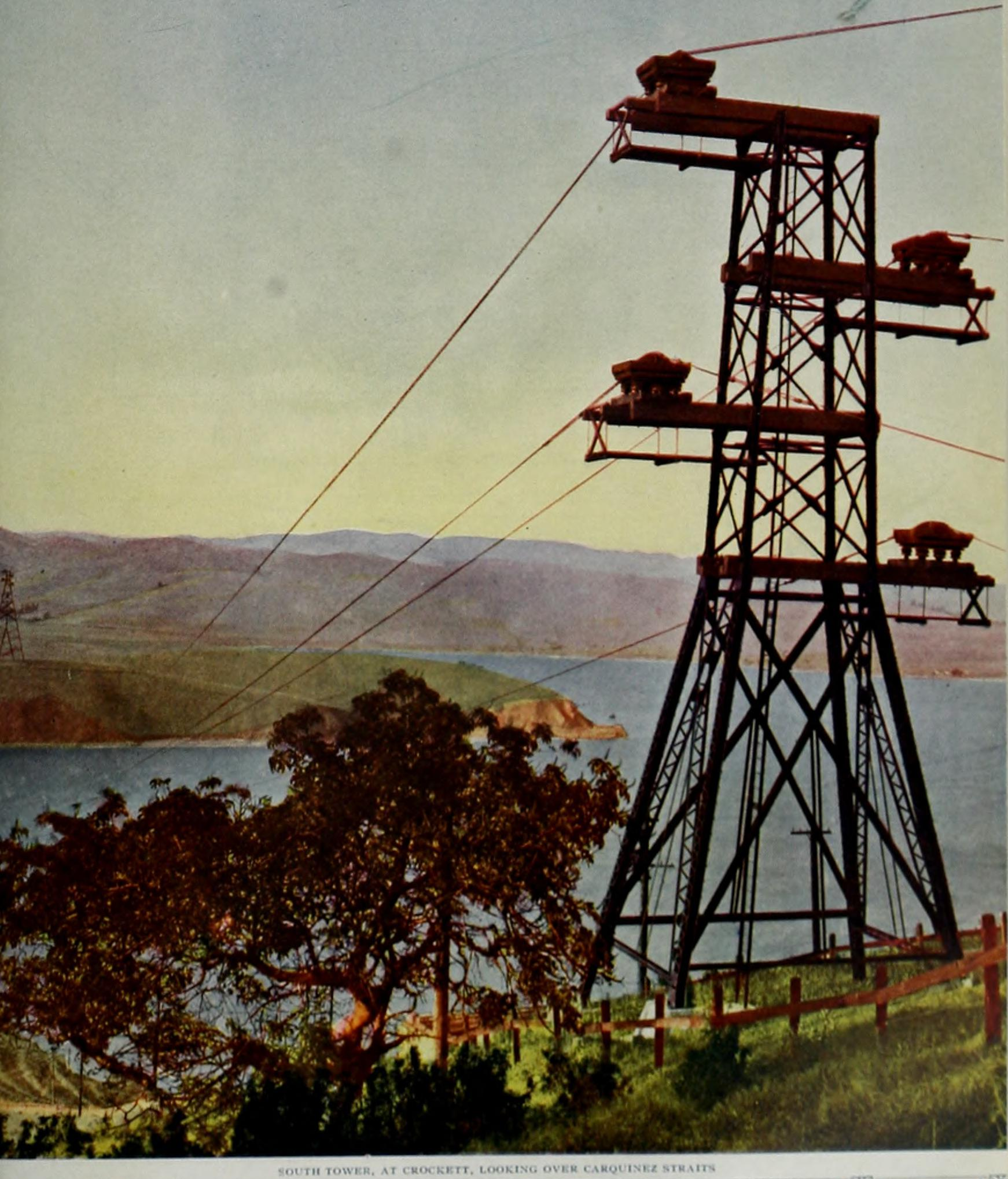 South Tower, at Crockett, looking over Carquinez straits; California – Carquinez Strait Powerline Crossing